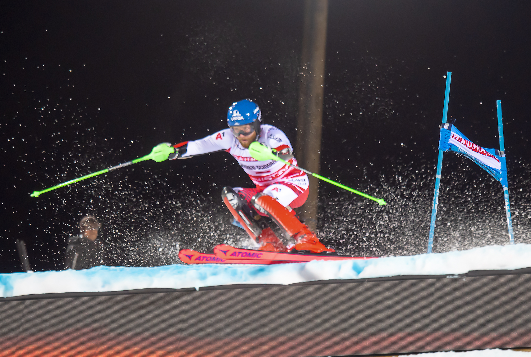 FIS Alpine Skiing World Cup in Stockholm 2019